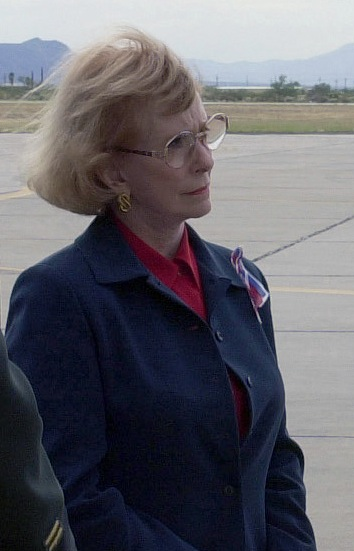 "Colonel (COL) Ronald E. Shoopman, (right center), USAF, Commander, 162nd Fighter Wing, Arizona Air National Guard, briefs Arizona Governor Jane Dee Hull during her visit to the Air National Guard's alert detachment facility. Accompanying the Governor are the Arizona Adjutant General, Major General (MGEN) David Rataczak, (left), USA, along with Guard pilot Major (MAJ) Randy Straka, USAF, assist with the tour"